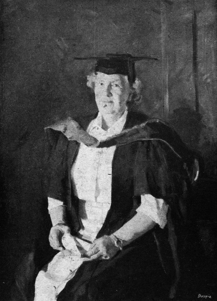 Freda Bage in academic dress, 1949 Copy of a portrait of Freda Bage by W. A. Dargie.